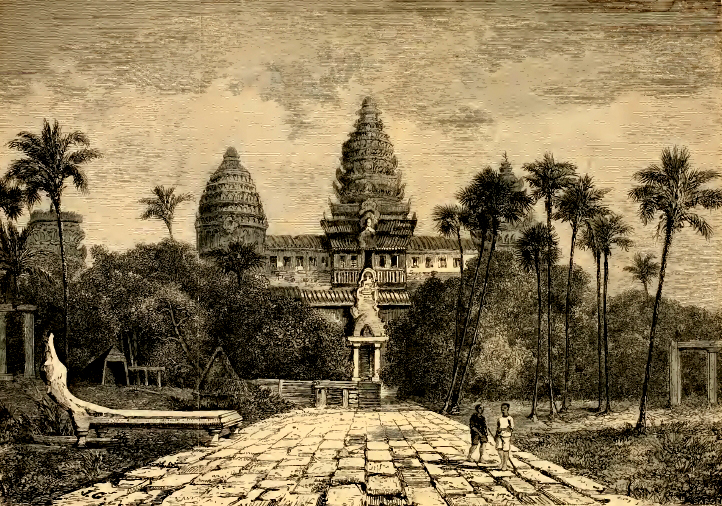 Facade of Angkor Wat, a drawing by Henri Mouhot